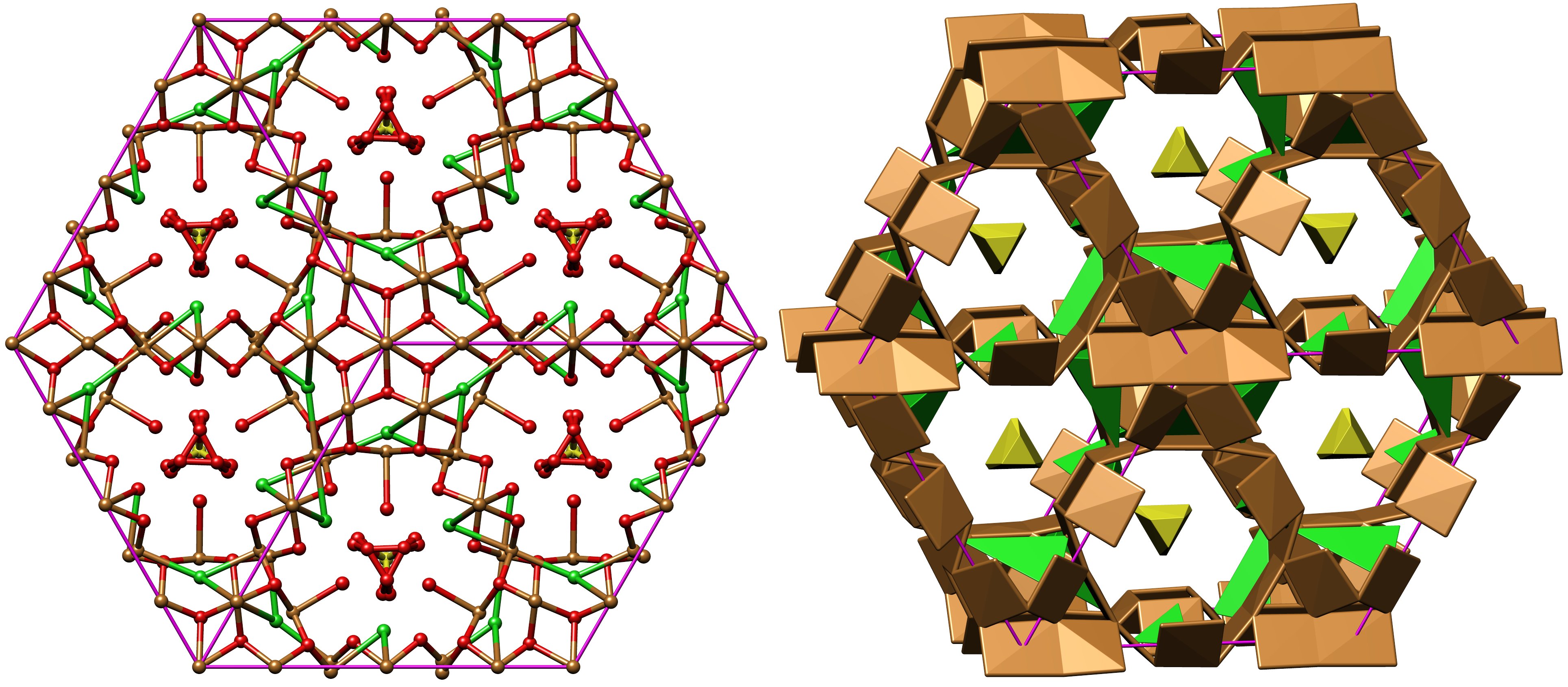 Crystal structure of connellite - Cu19[(OH)32SO4Cl4]·3H2O. McLean W J, Anthony J W Colour code: Copper, Cu: brown Sulfur, S: olive Oxygen, O: red Chlorine, Cl: green Cell: magenta